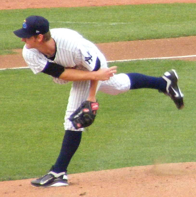 Craig Heyer delivers a pitch for the Trenton Thunder during a 2011 game at Arm & Hammer Park